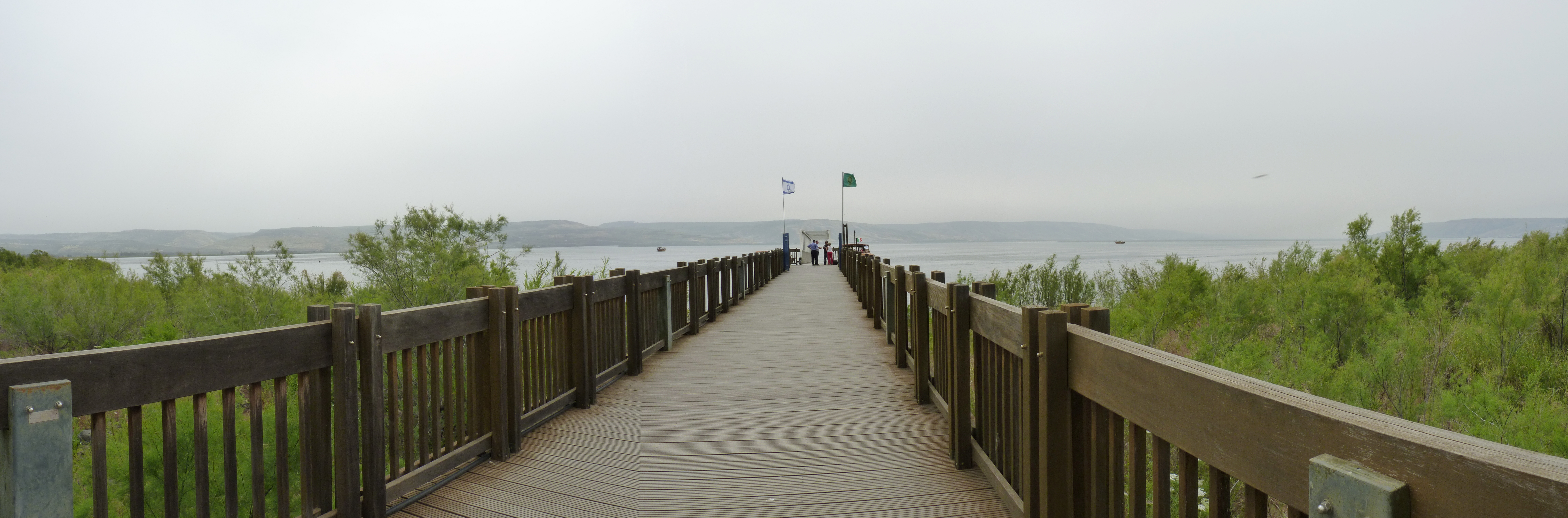 Panorama 2 Kfar Naum (Capernaum). National park and remains of a fishing village from the time of the Second Temple, on a site that was the focus of Jesus’ Galilee ministry The antiquities are under the aegis of the Franciscan Church. The national park around the antiquities site is under the aegis of the Israel Nature and Parks Authority.